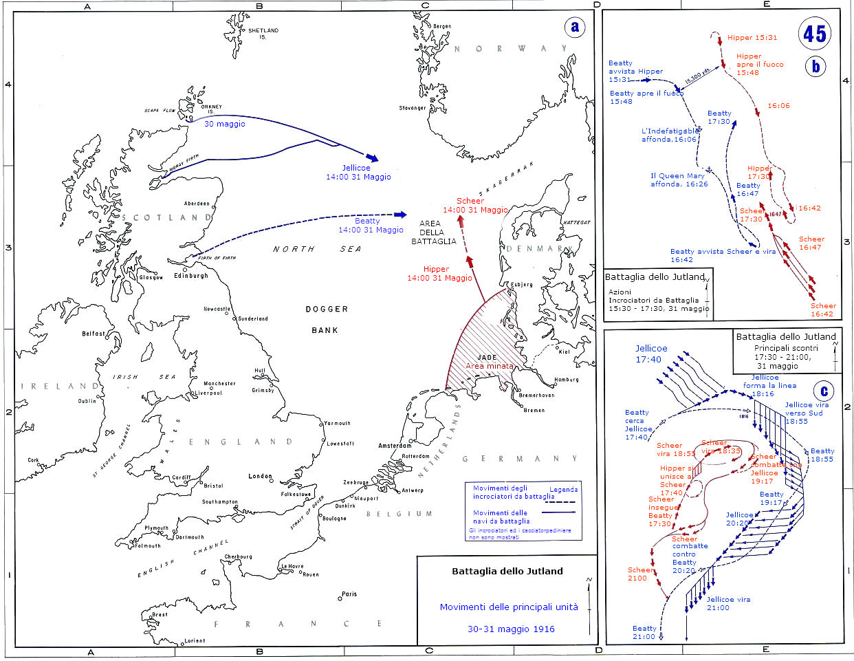 Battle of Jutland 1916. Translated in Italian